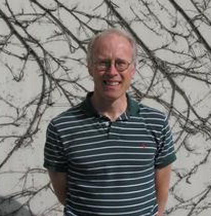 Paul Vojta, Oberwolfach 2008